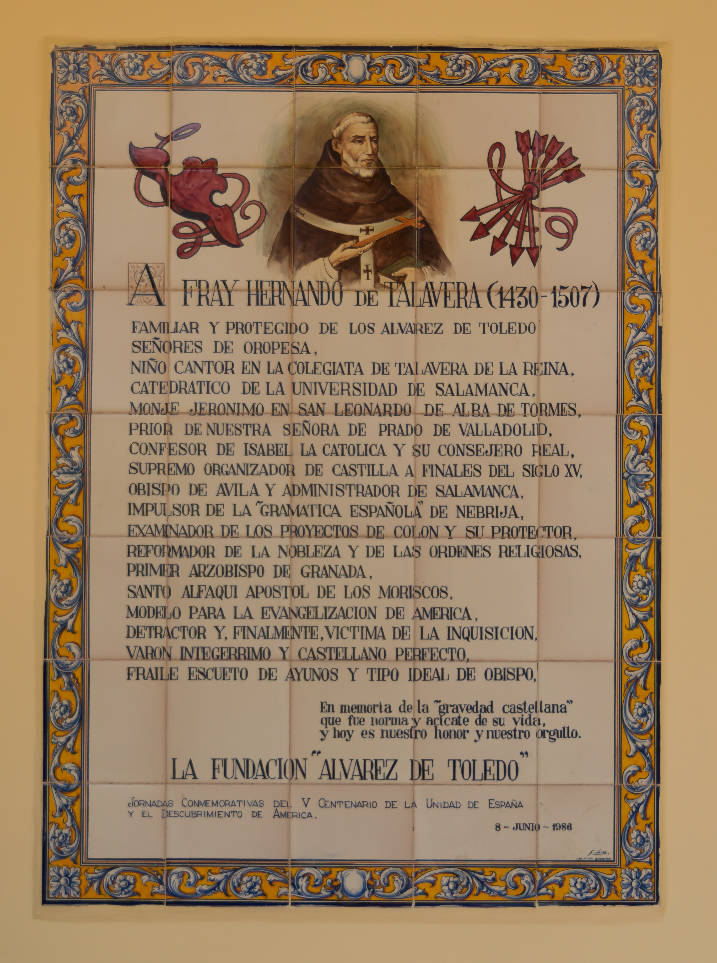 A plaque to Hernando de Talavera, monastery of san Jerónimo, Granada, Andalusia, Spain.